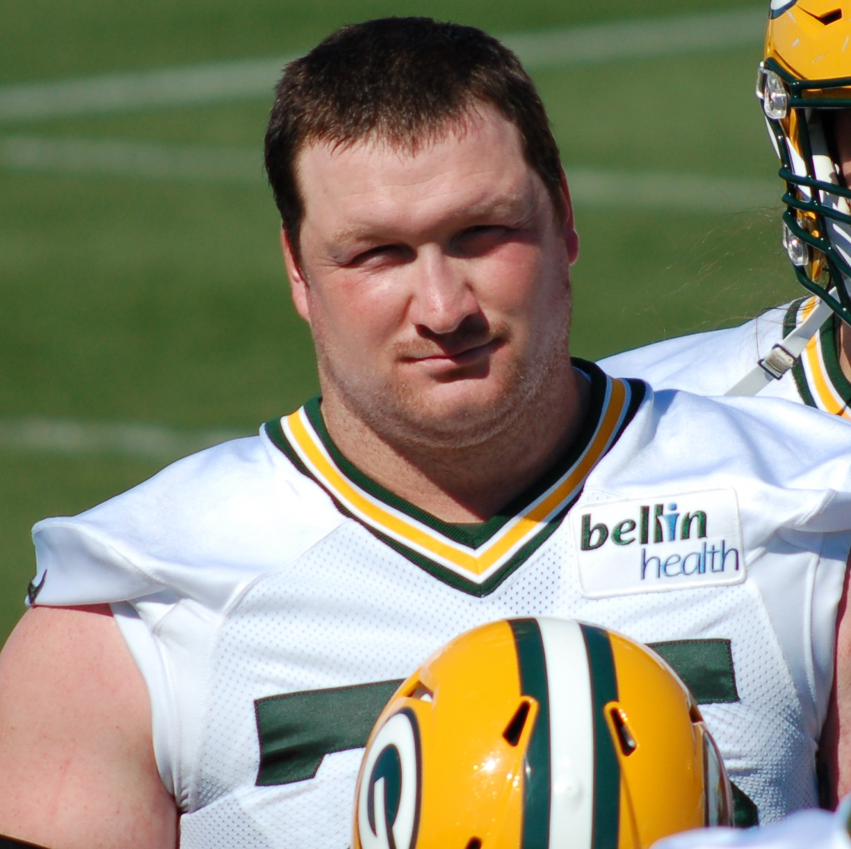 2015 training camp